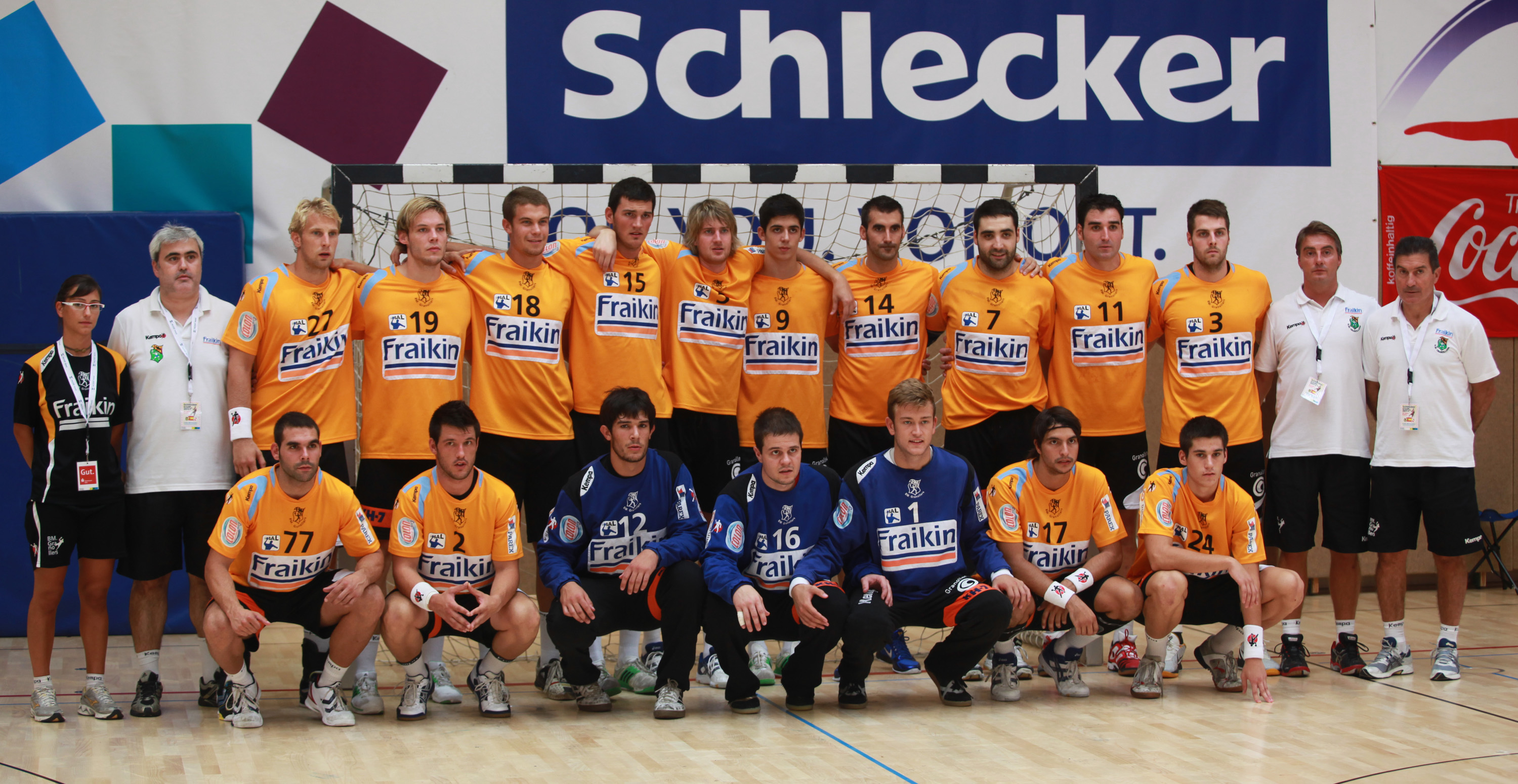 The team of BM Granollers, on August 20th, 2011 in Ehingen (Germany).